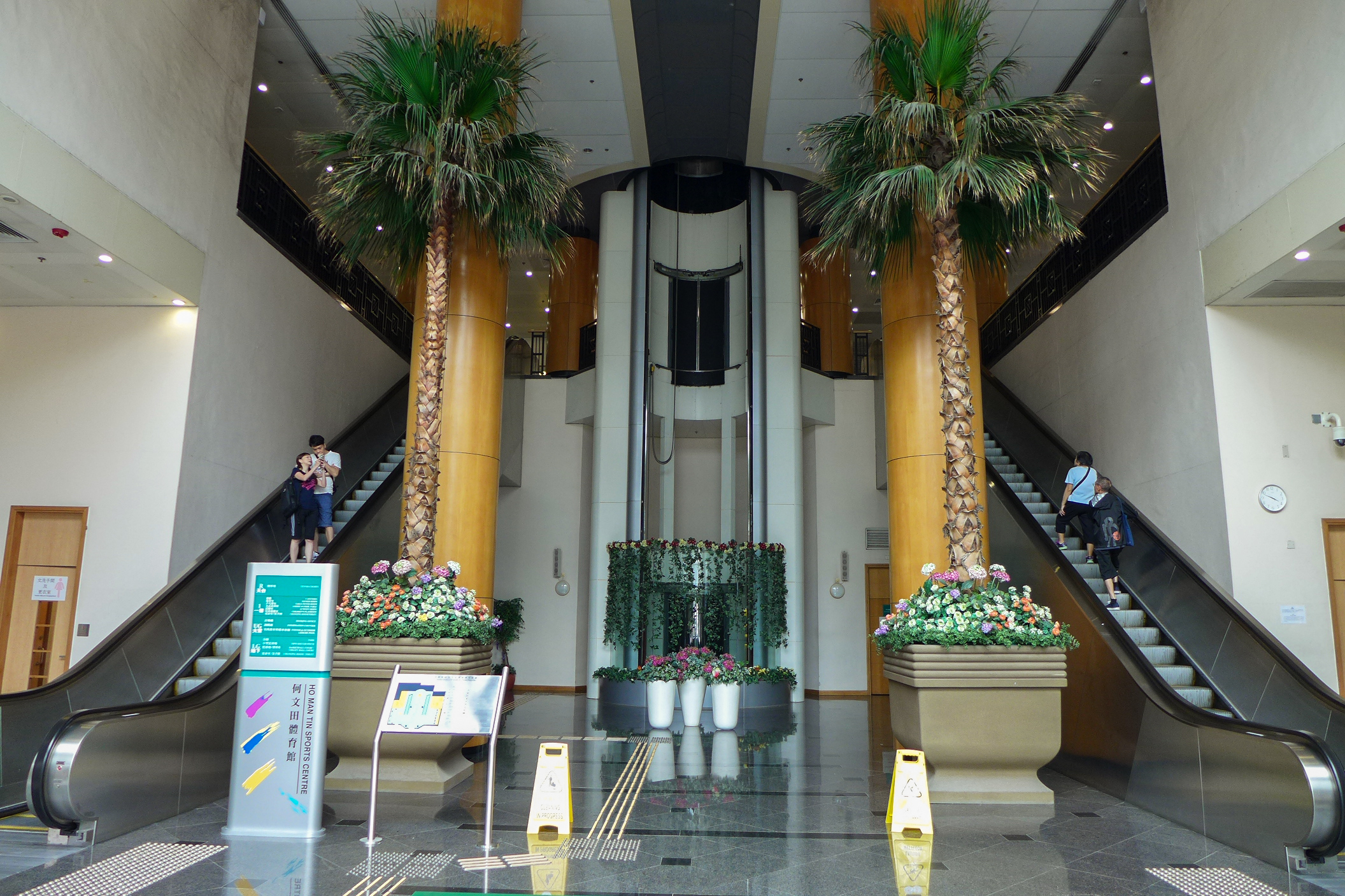 Ho Man Tin Sports Centre Entrance Lobby